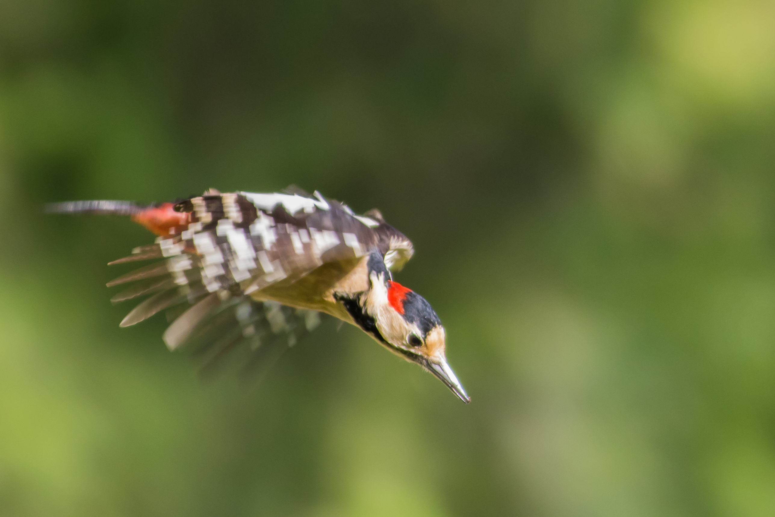 Dendrocopos syriacus, Ashkelon National Park, Israel.